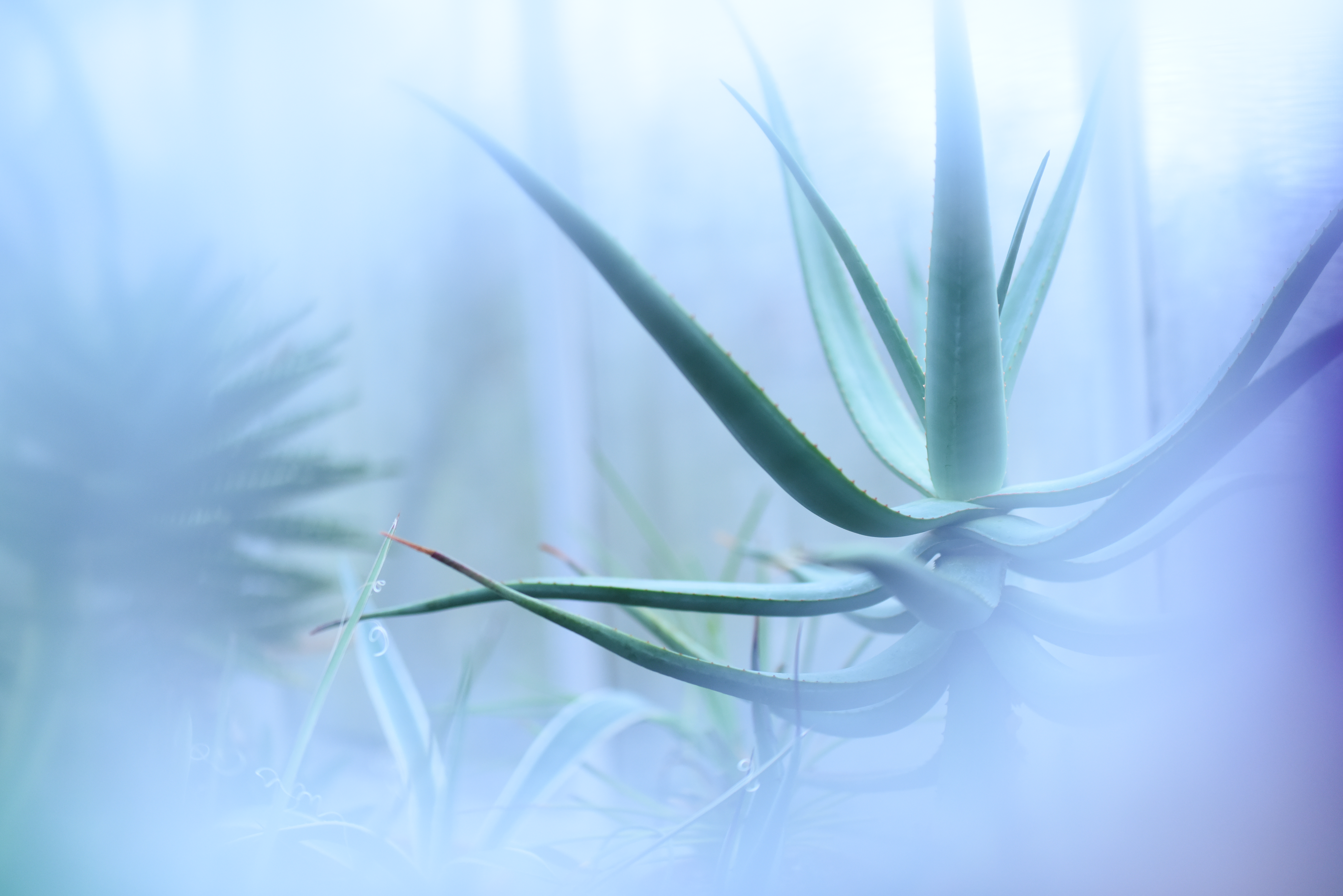 Edgerton Park Conservancy succulent at dusk.